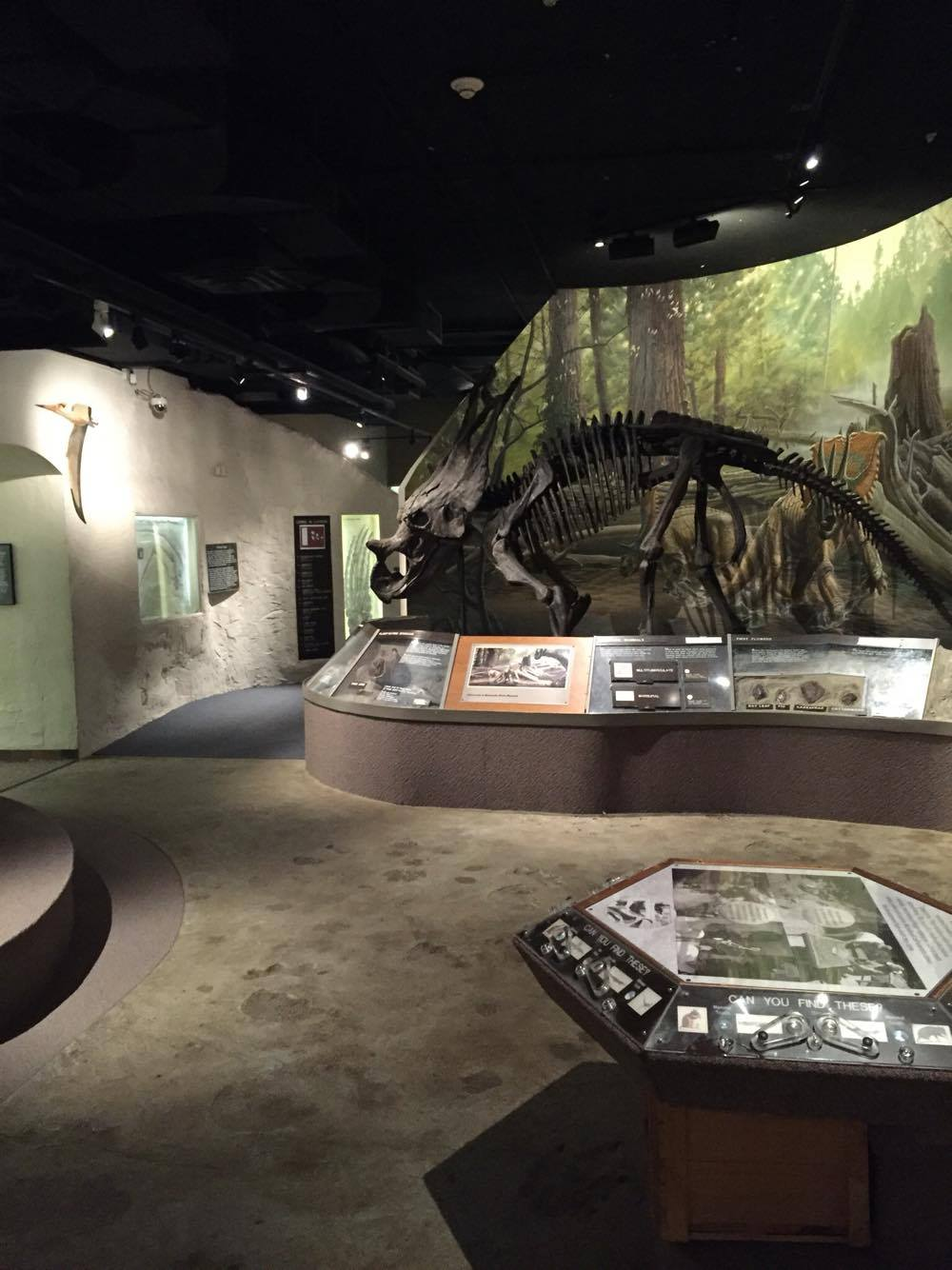 Exhibit